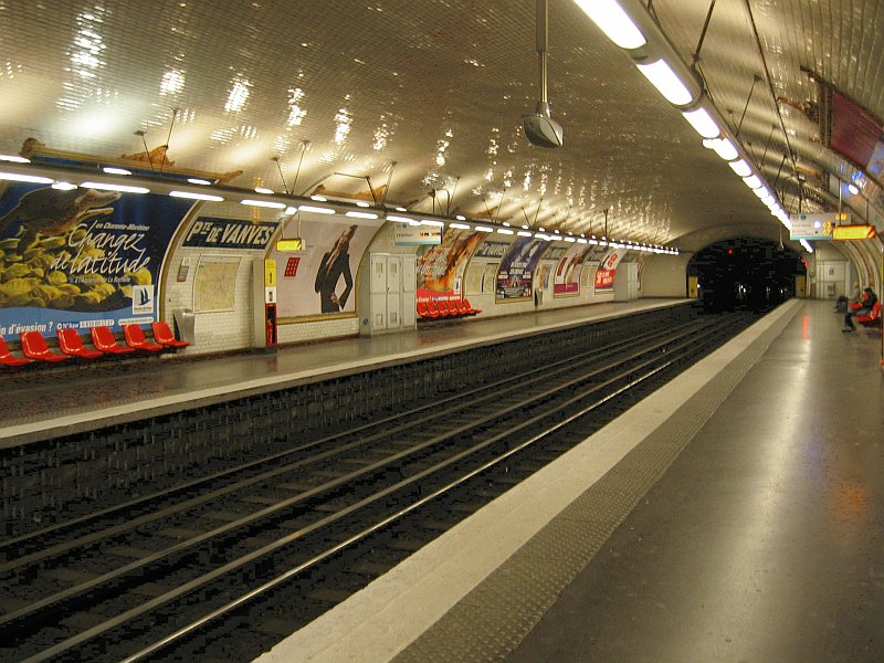 Paris' métro station Porte de Vanves, line 13